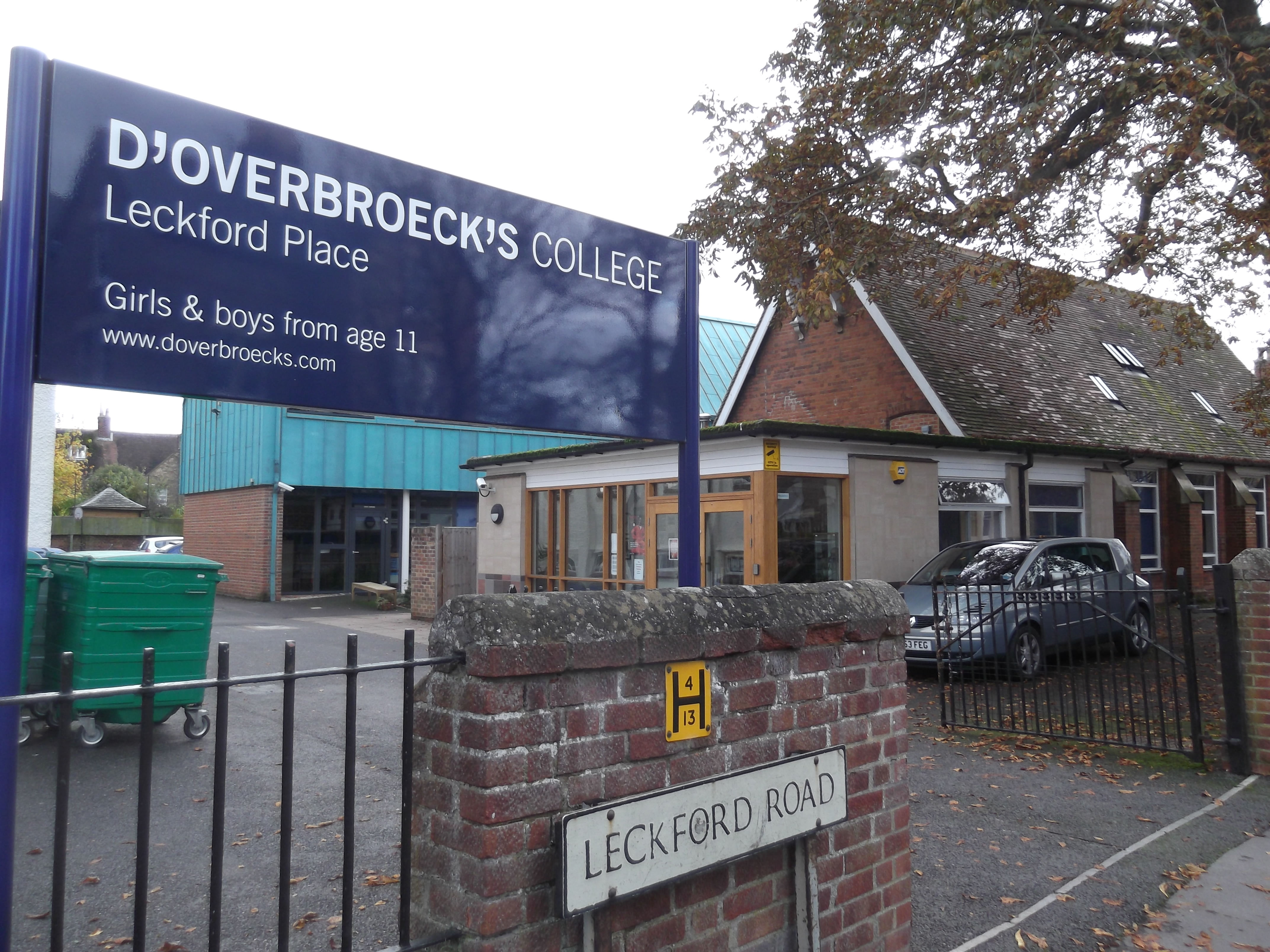 School in north Oxford, England.